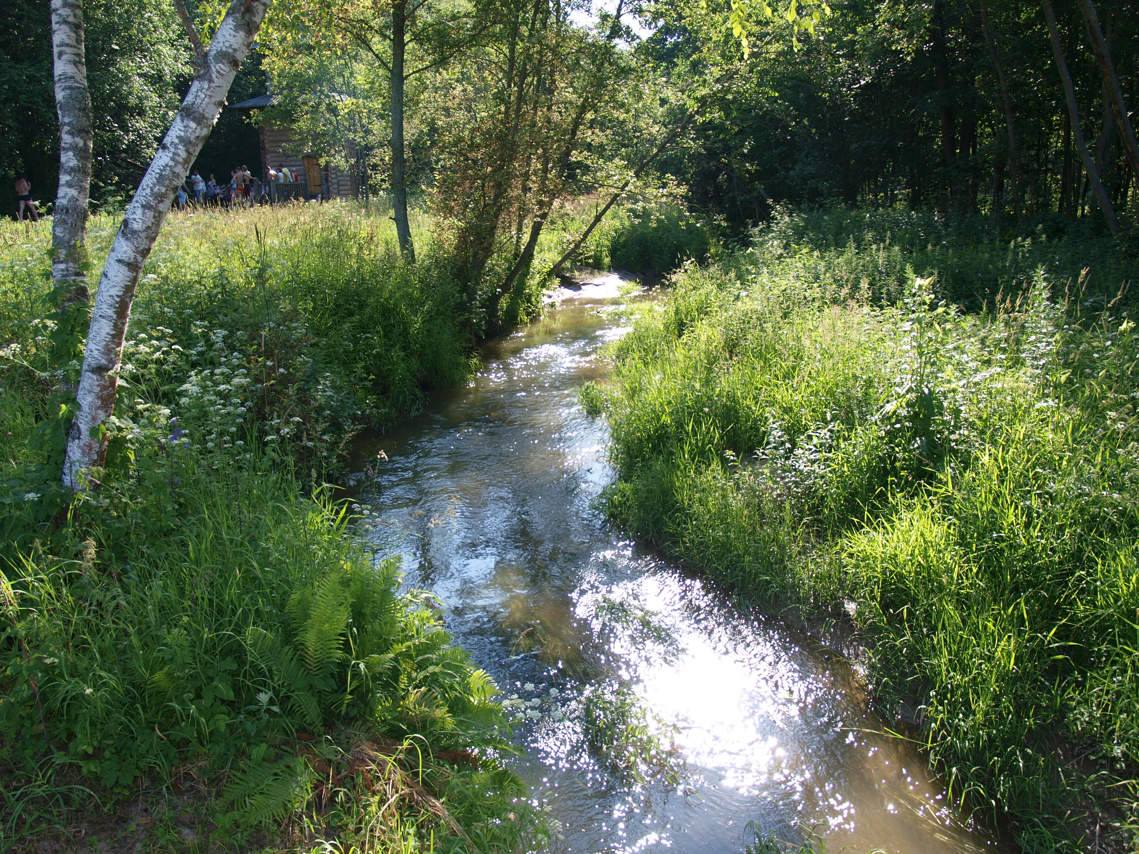 Vodinga River at Gremyachy Waterfall area. Moscow oblast, Russia.